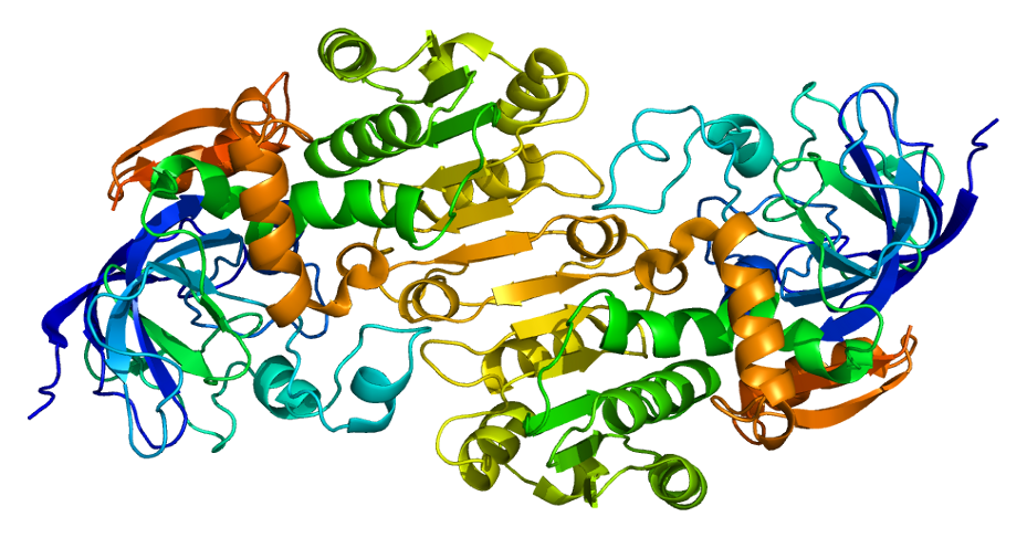 Structure of the ADH5 protein. Based on PyMOL rendering of PDB 1m6h.